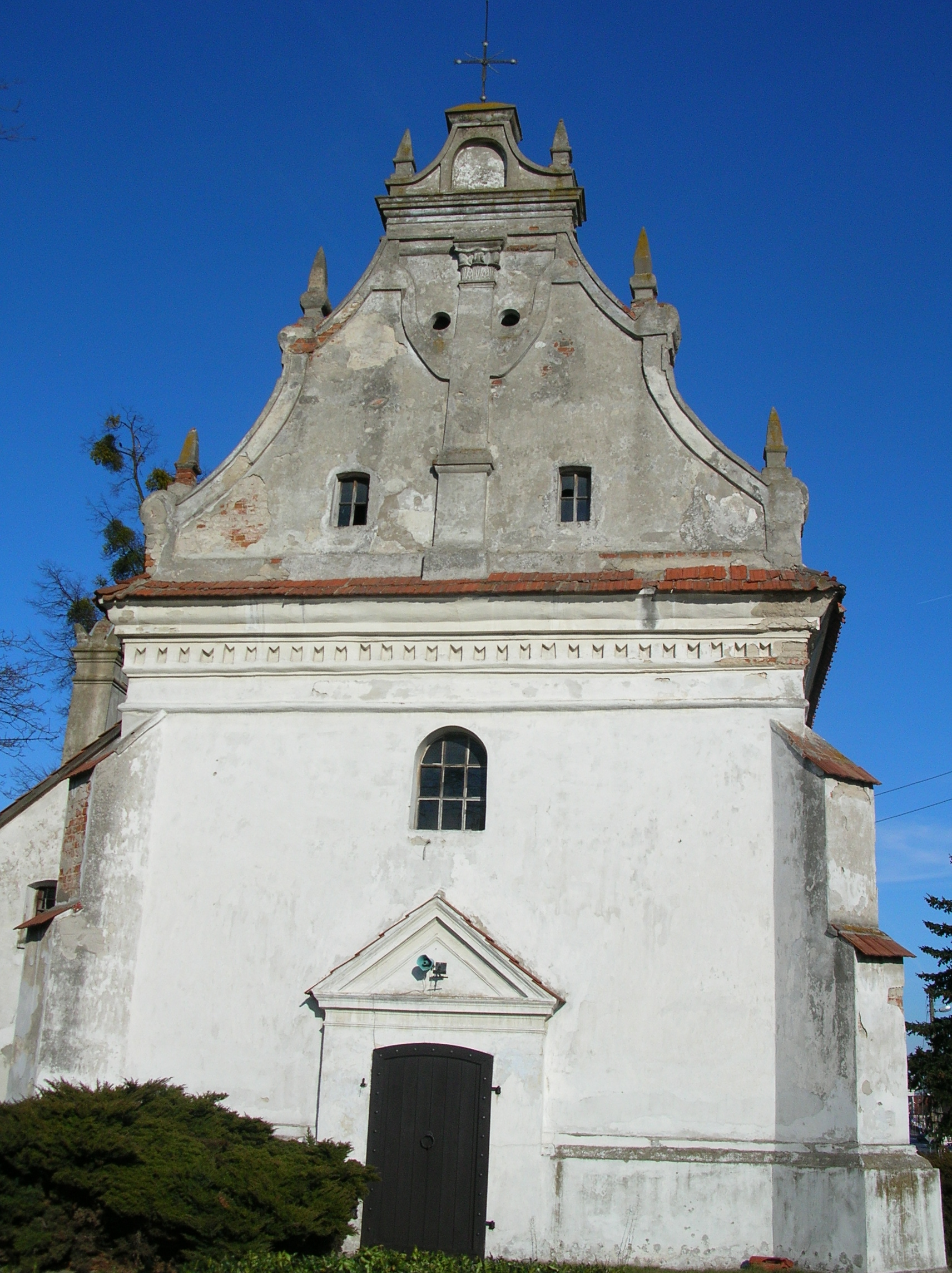 St. Anna's Church in Końskowola